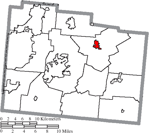 Map of the municipal and township boundaries of Greene County, Ohio, United States, as of the 2000 census, with the location of the village of Cedarville highlighted. Township borders are shown only in unincorporated areas in order to differentiate incorporated and unincorporated areas more clearly.